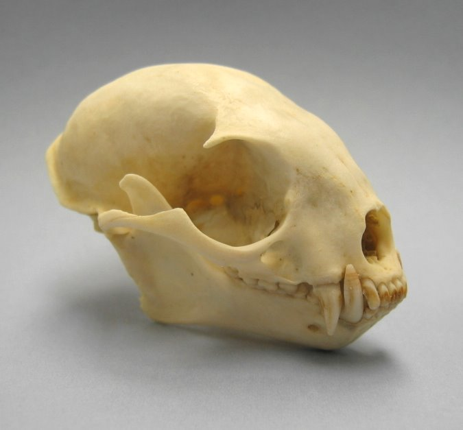 Kinkajou Skull from the collections of Skulls Unlimited International.